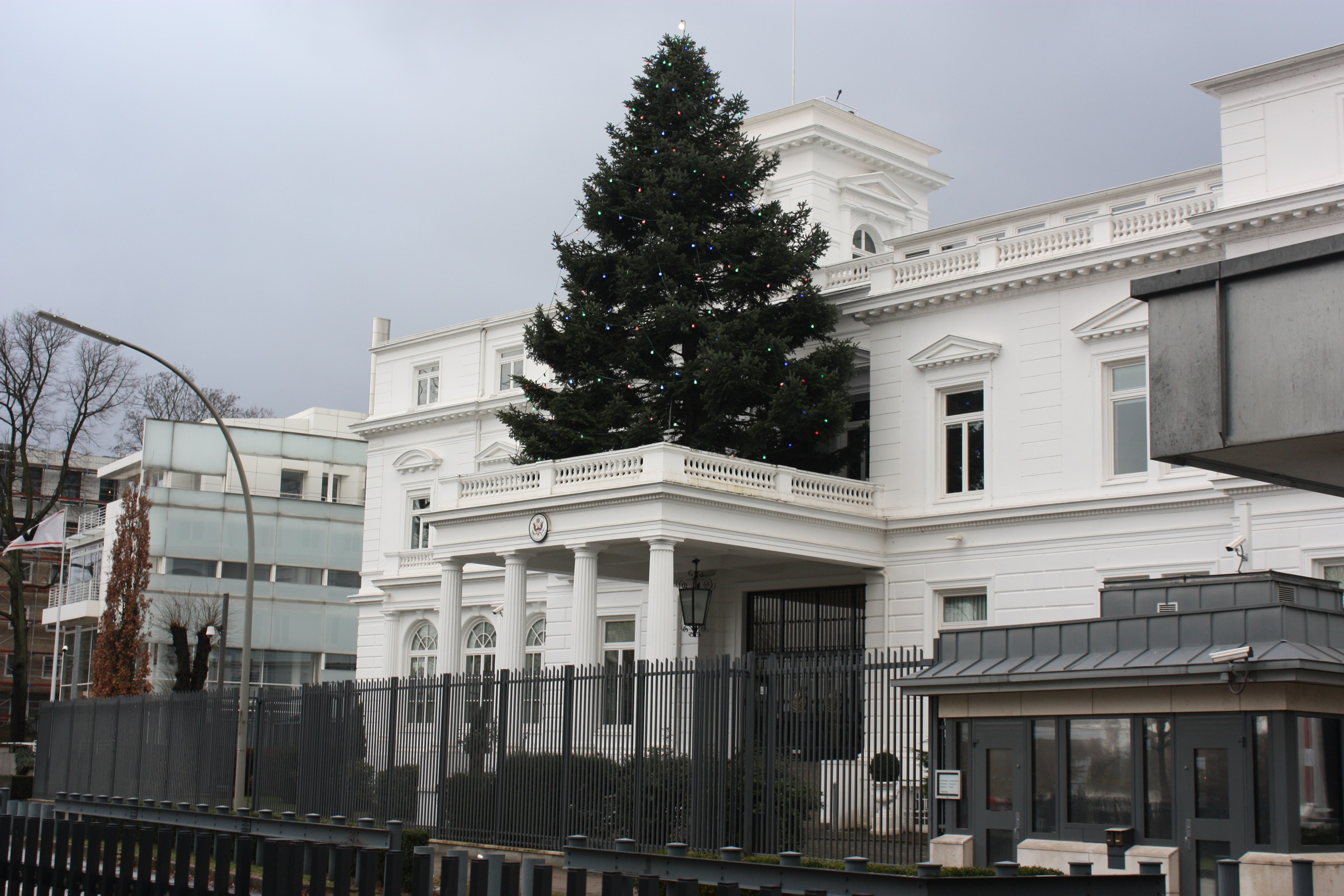 Hamburg-Rotherbaum, Consulate General of the United States